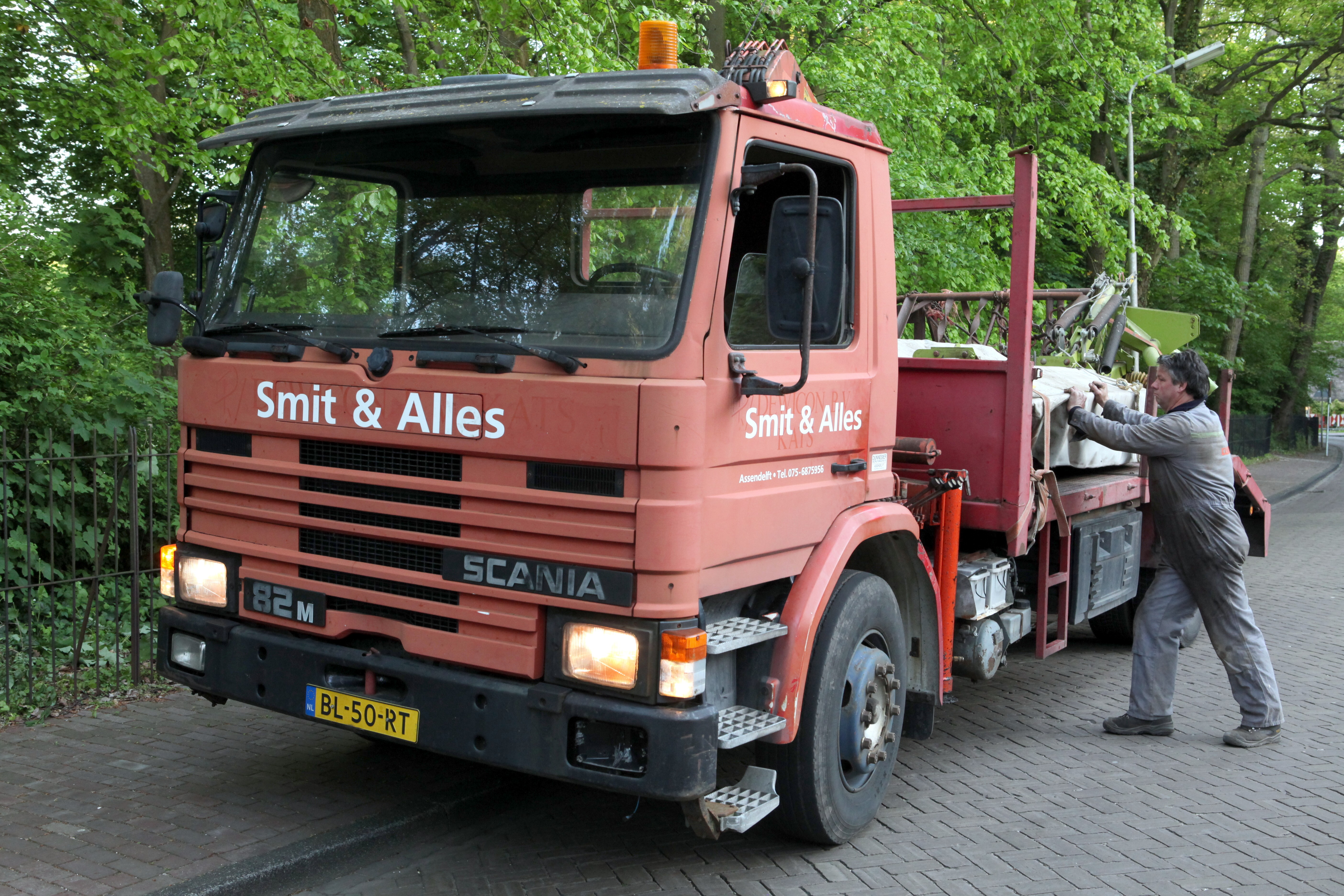 1985 Scania 82M ("PM 4X2 ZL 60100")